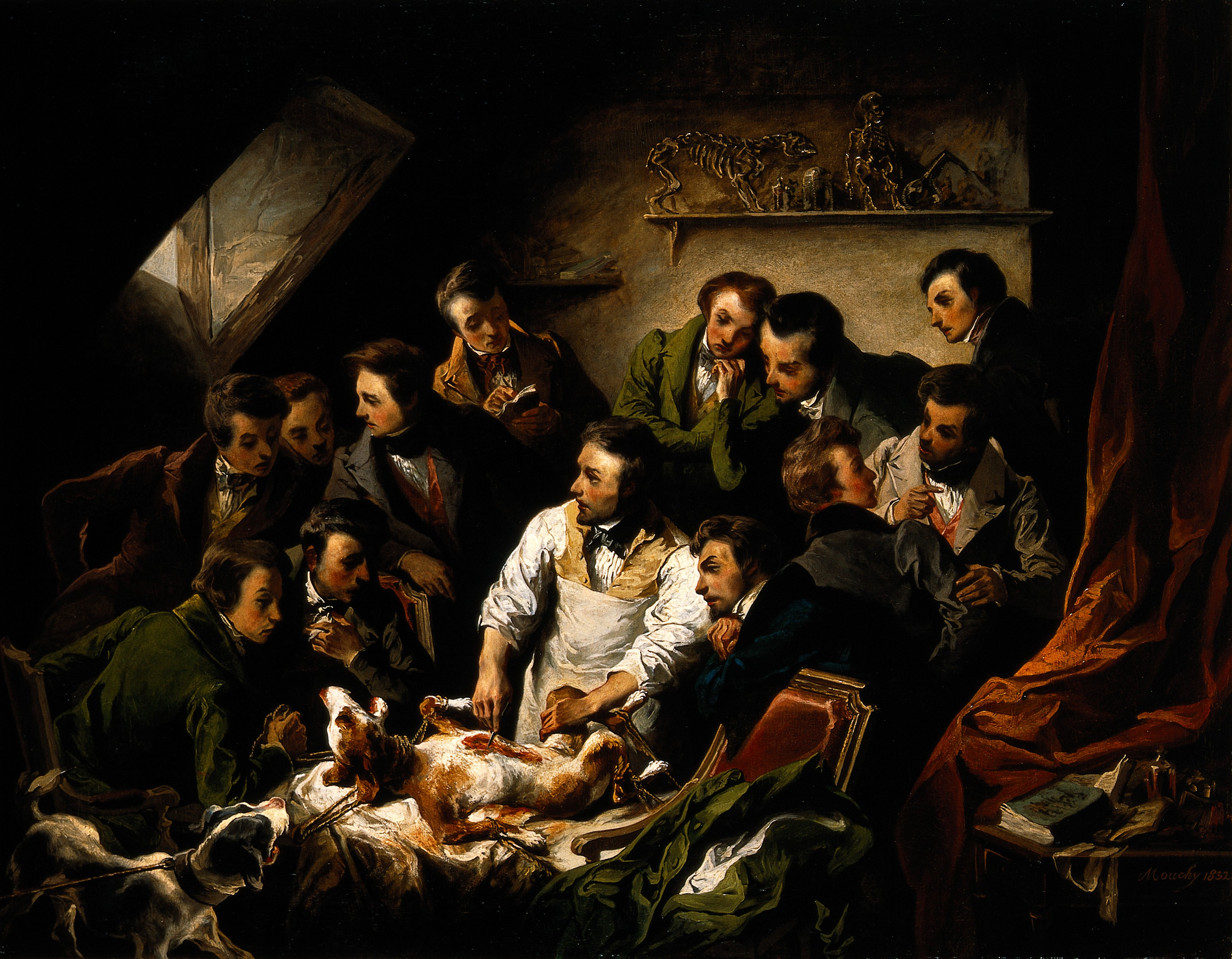 A physiological demonstration with vivisection of a dog. Oil painting by Emile-Edouard Mouchy. Iconographic Collections Keywords: Emile-Edouard Mouchy; Animals; Dissection; Dogs; ANIMAL; mouchy, emile-edouard; Physiology